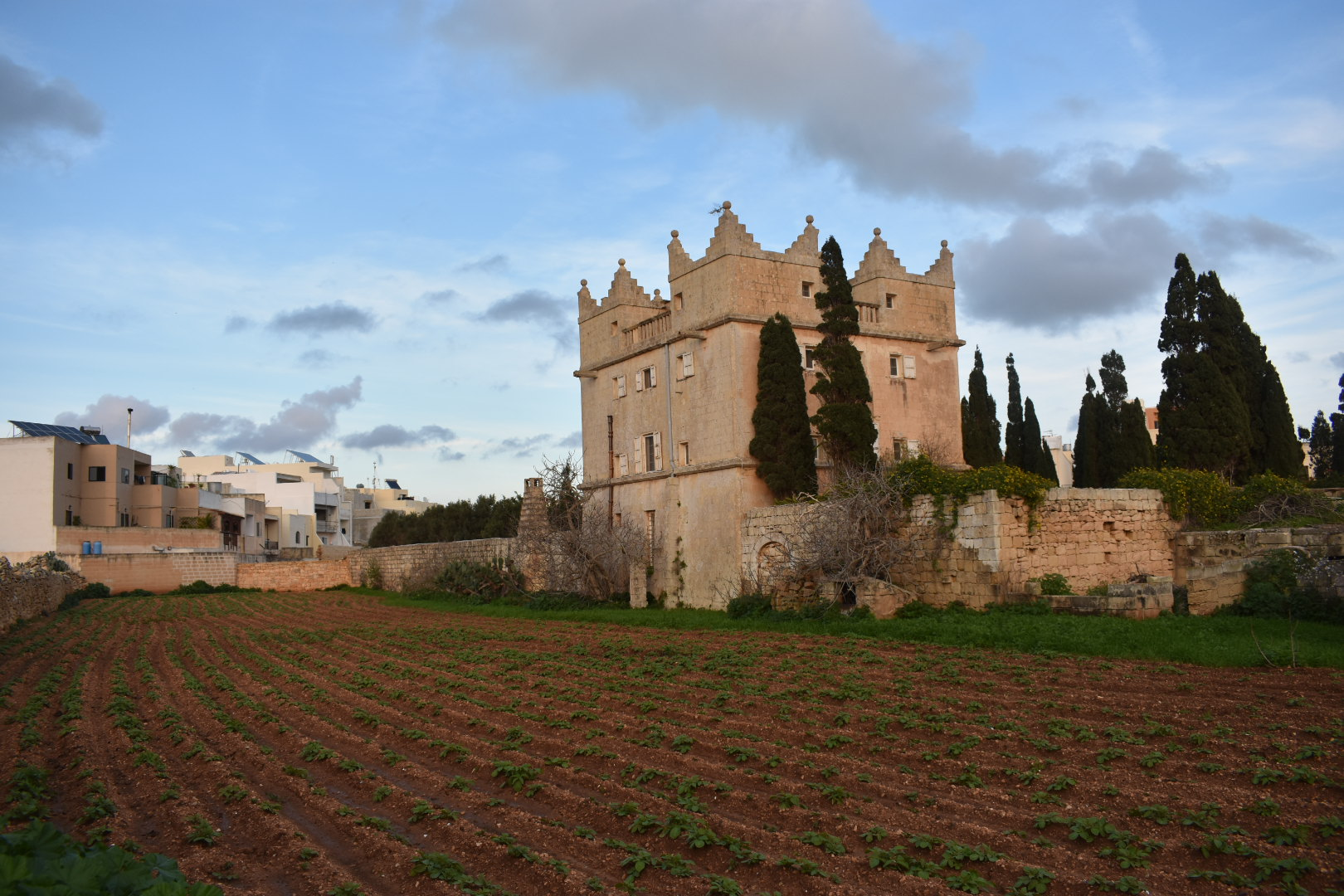 Bubaqra Tower This media is about Maltese cultural property with inventory number 01432.